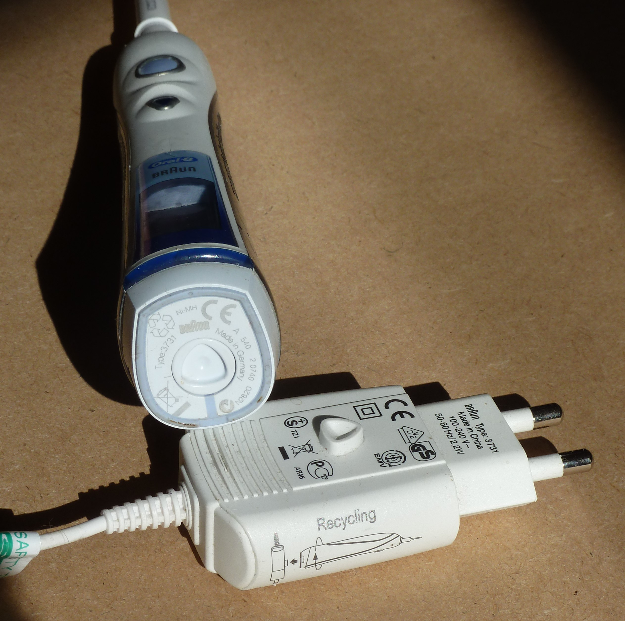 Oral-B rechargeable toothbrush, showing the TP3 headed screw used to hold the case together. When the rechargeable battery is no longer serviceable, the toothbrush may be dismantled with this screw and the battery and motor units sent separately for appropriate recycling. The battery charger has a moulded screwdriver, and an explanatory label, for just this purpose.